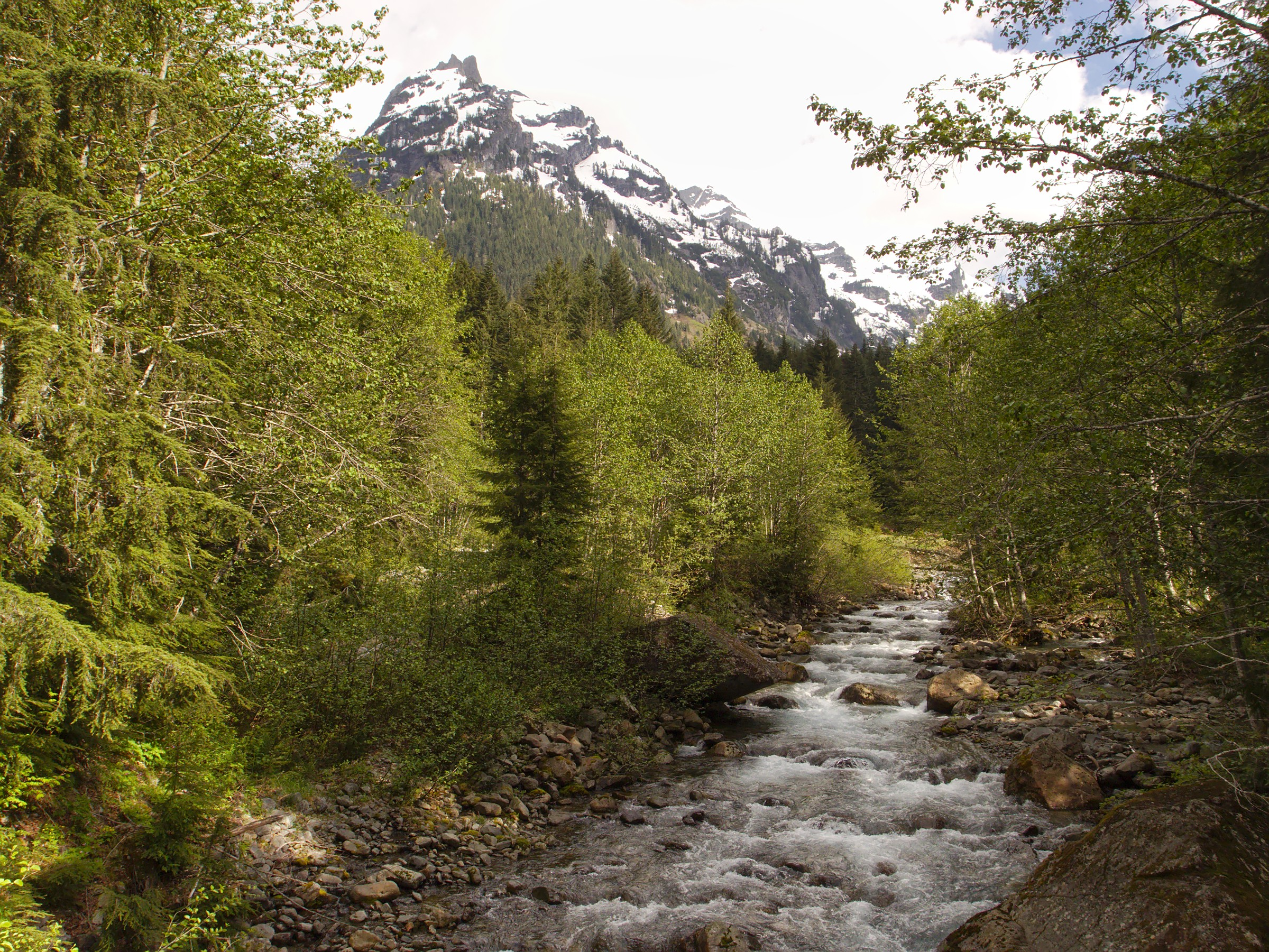 South Fork of Sauk River viewed from foot bridge entering the Monte Cristo townsite.